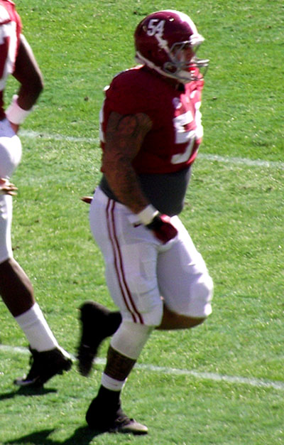 Alabama Crimson Tide nose tackle Jesse Williams at Bryant–Denny Stadium.